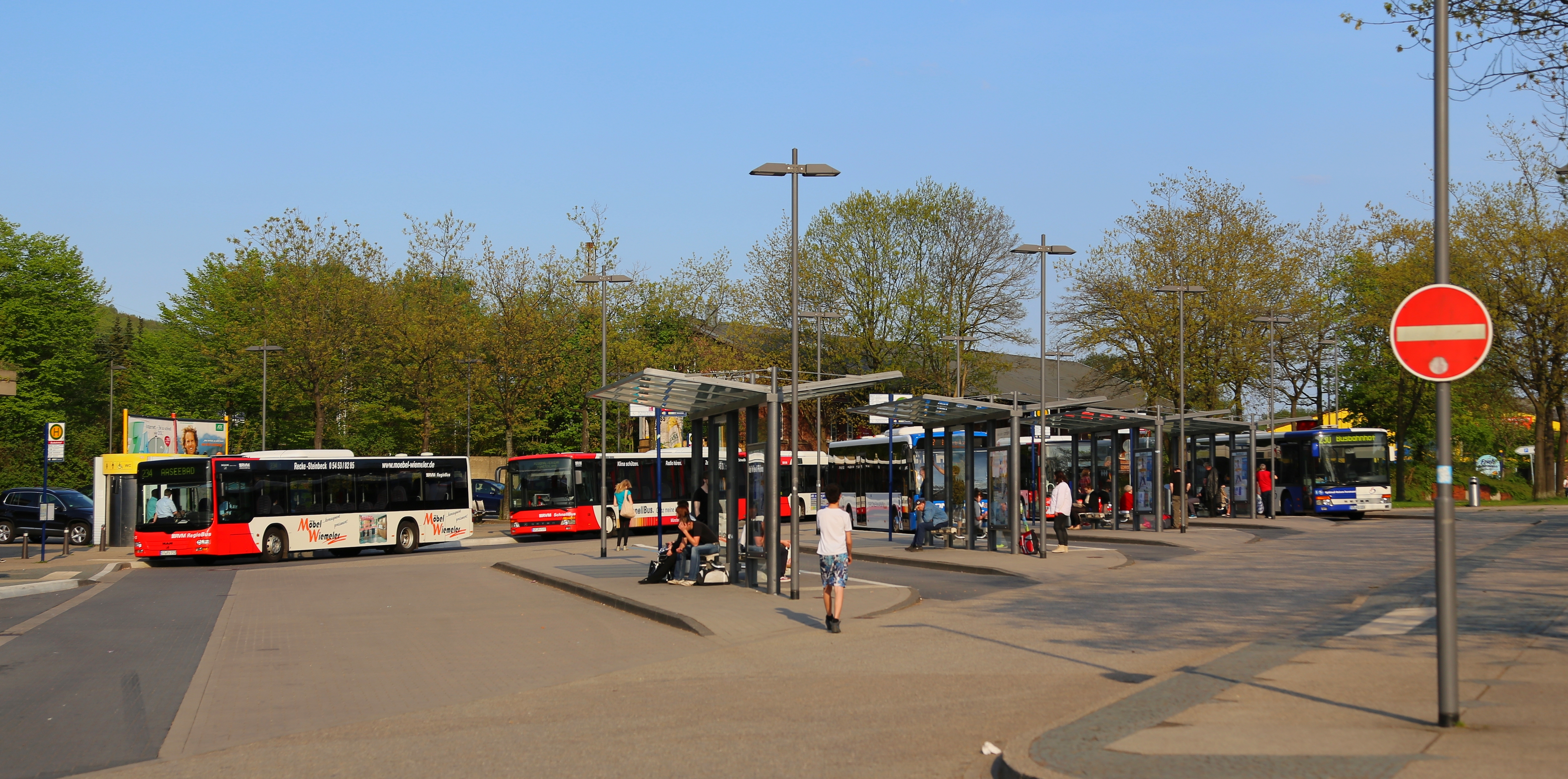 Bus station at the train station of Ibbenbüren, Kreis Steinfurt, North Rhine-Westphalia, Germany.